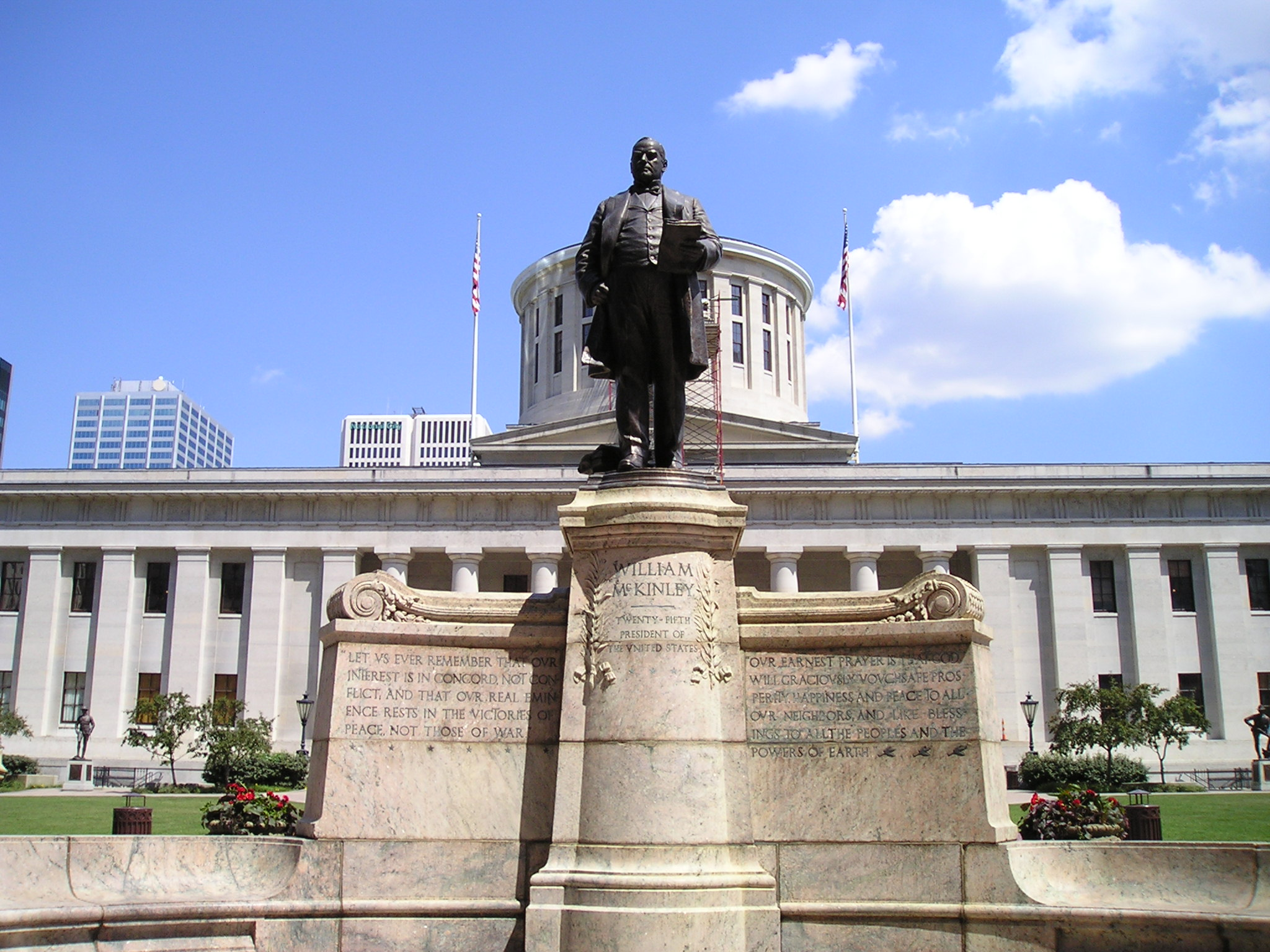 Apparently, he was from Ohio. Now you know